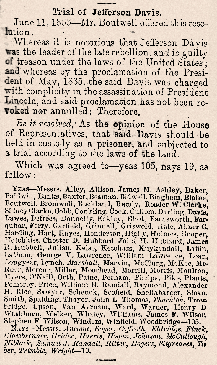 US House of Representatives vote on the trial of Jefferson Davis